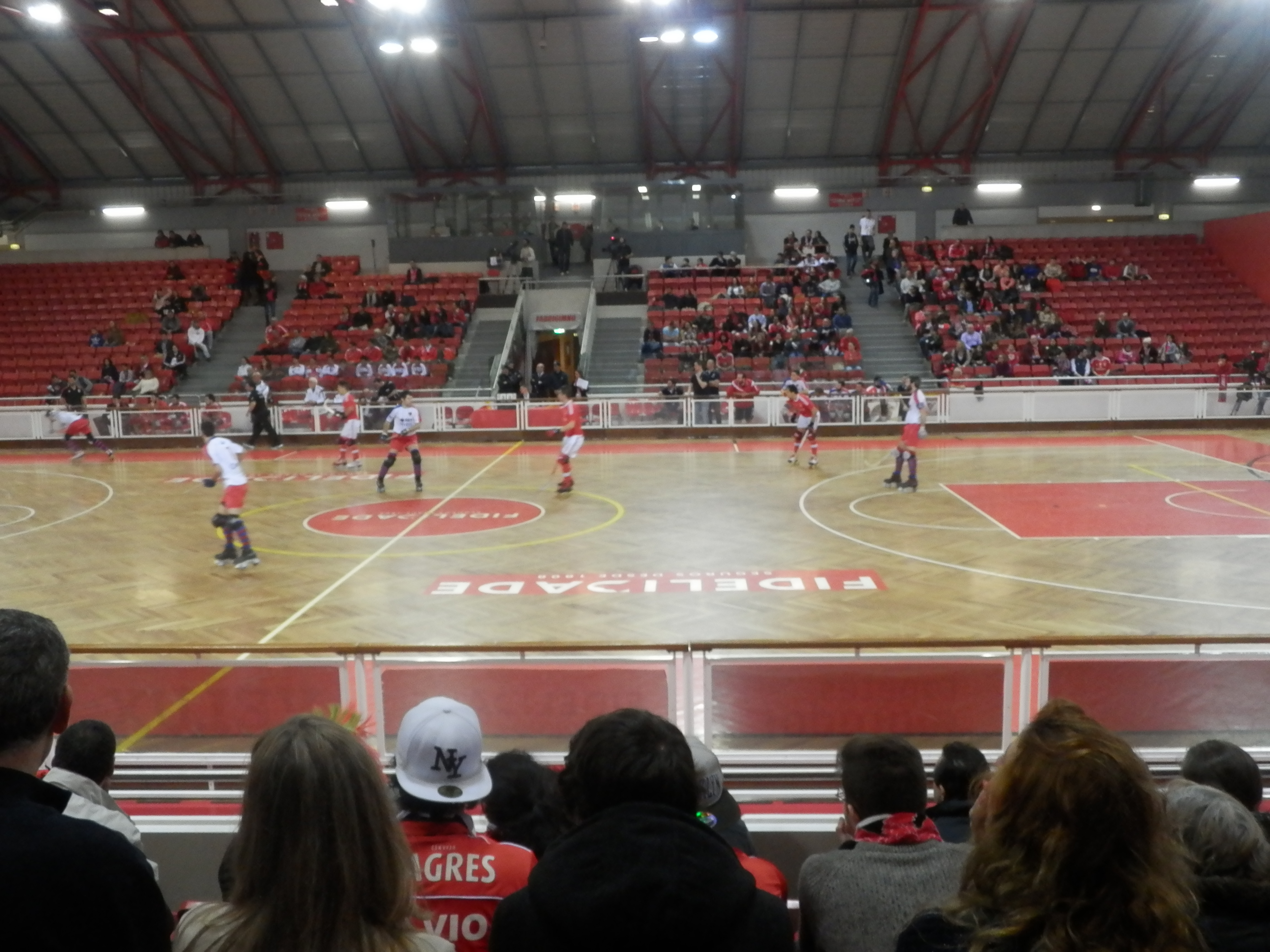 Game starts for Merignac